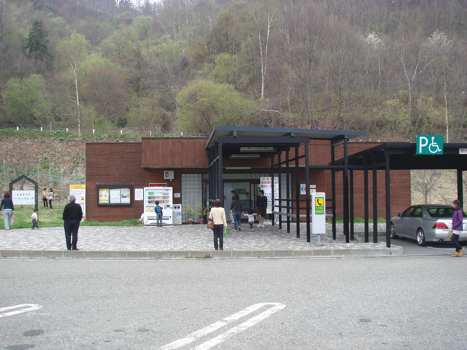 Hokkaidō Expressway Toyoura-Funkawan Parking Area for Sapporo